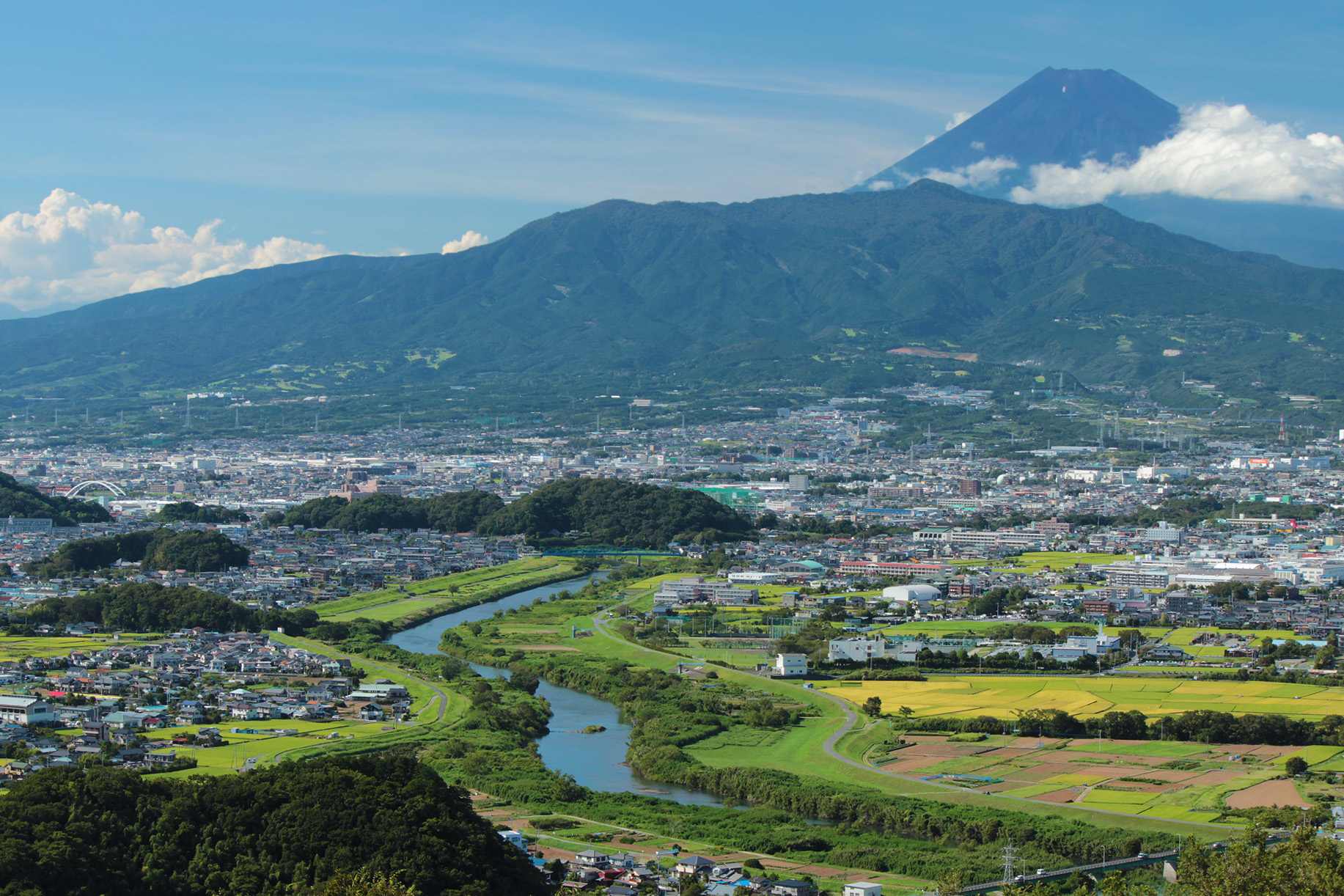 Mount Ashitaka with Mount Fuji as seen from the SSE. Kano River in the center bottom. Taken from Mount Oarashi.